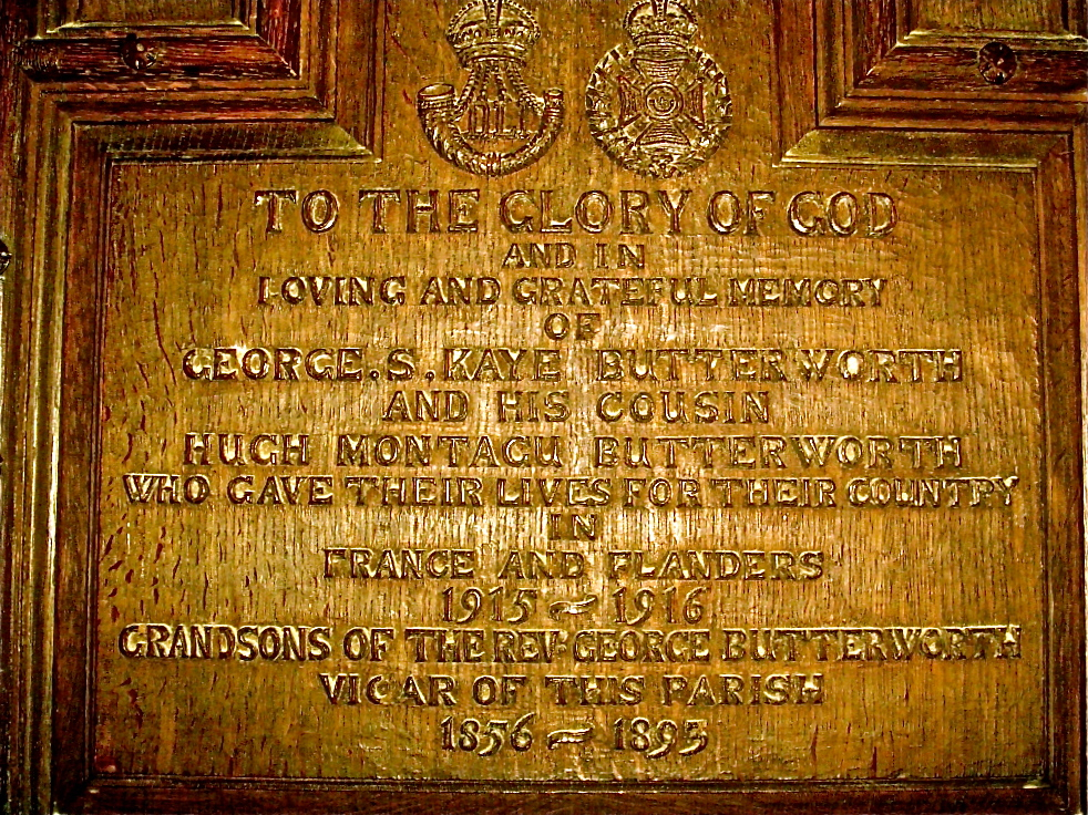 A plaque erected at St Mary's Church, Deerhurst, Gloucestershire, in 1918 by Sir Alexander Kaye Butterworth, in memory of his son and nephew who died in World War 1. Hugh Montagu Butterworth was killed at Loos in 1915, while his cousin, George Sainton Kaye Butterworth died on the Somme in 1916.